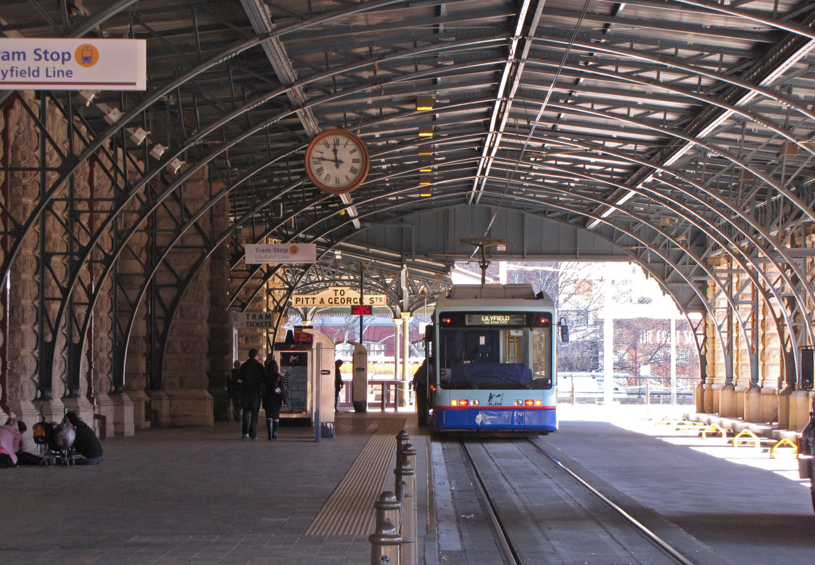 The tram stop at Central Station.